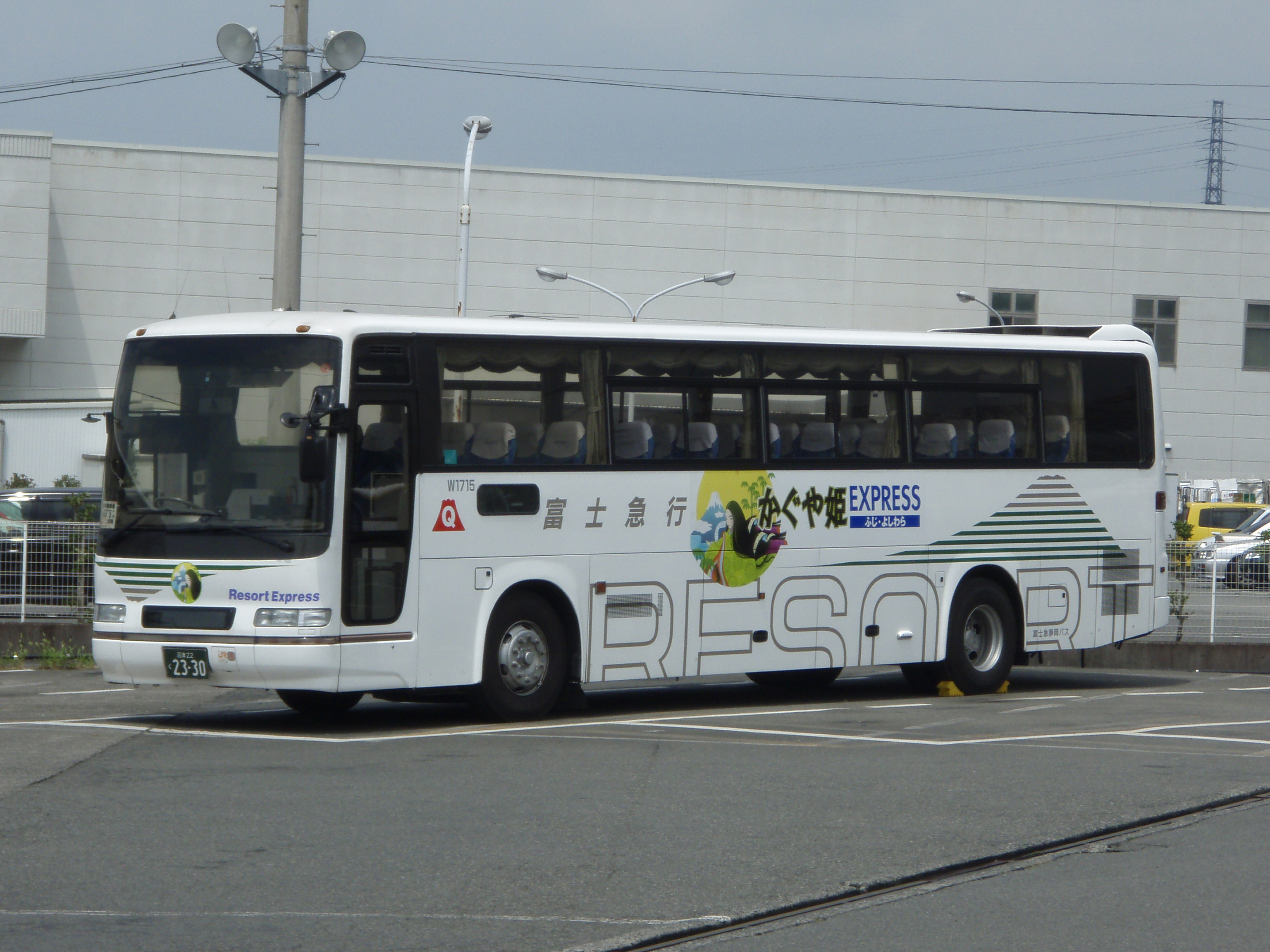 Fujikyu Shizuoka Bus Kaguyahime Express